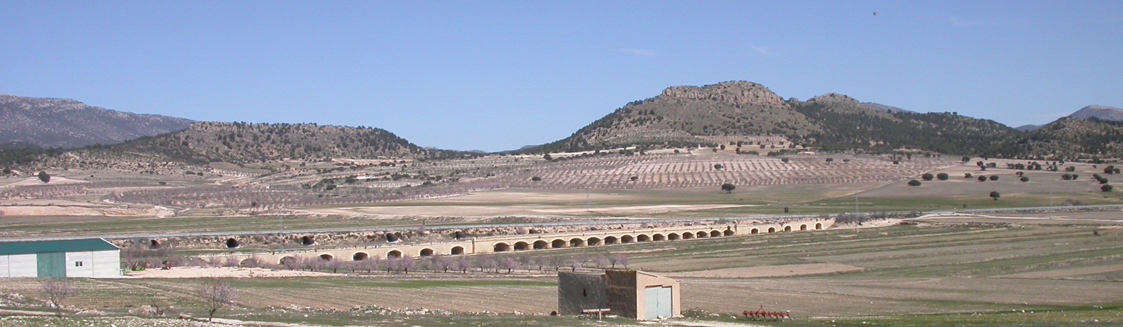 Bridge of Almaciles (Spain). SW view. Bridge crosses over the Rambla de Almaciles. The highest peak in the background is Almacilón (1.412 m).